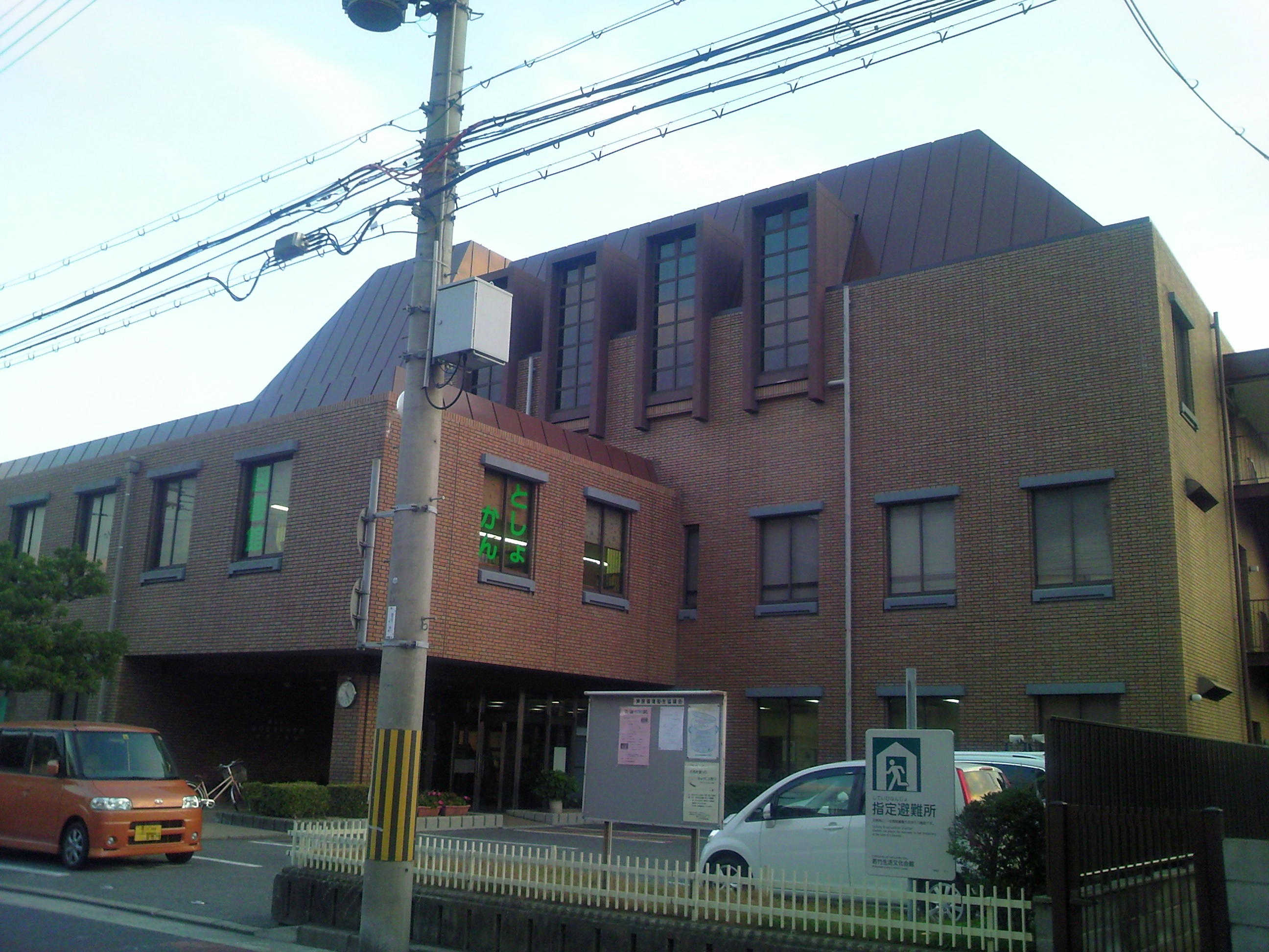 Nishinomiya city library Wakatake branch (Nishinomiya city Wakatake life cultural hall), Hyogo prefecture, Japan